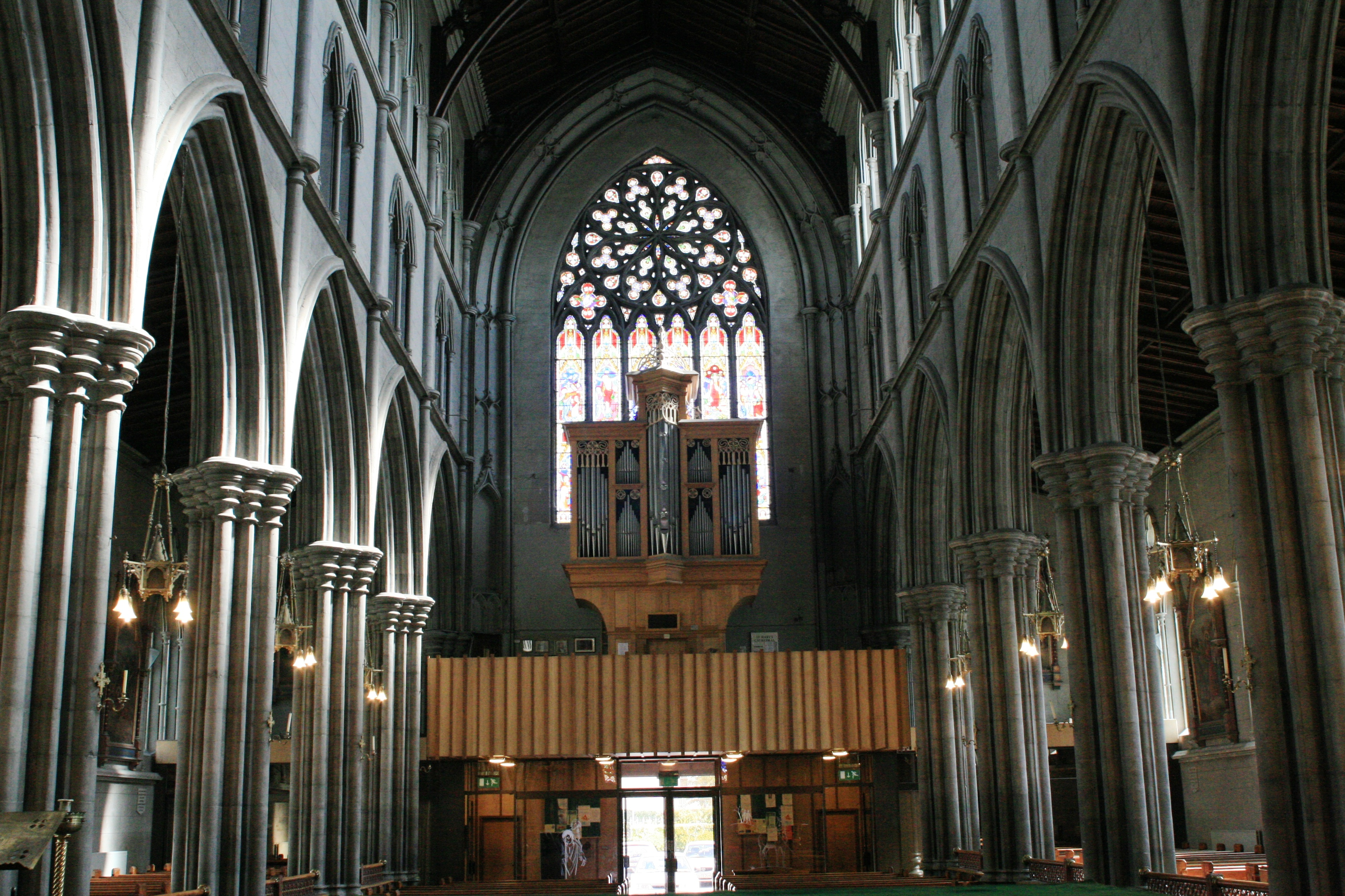 Kilkenny, Co. Kilkenny, Ireland View of the nave in east direction of St. Mary's Cathedral.